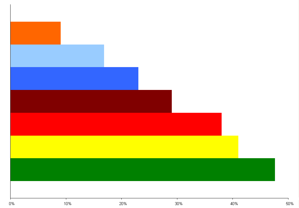 Stokes 2006 Gender balance by European Parliament group.PNG. Stokes 2006 Group gender balance The March 2006 edition of "Social Europe: the journal of the European Left included a chapter called "Women and Social Democratic Politics" by Wendy Stokes, Senior Lecturer in Politics, London Metropolitan University. That chapter gave the proportion of female MEPs in each Group in the European Parliament. Those figures were: G/EFA: 47.6% ALDE: 41% PES: 38% EUL/NGL: 29% EPP-ED: 23% UEN: 16.8% IND/DEM: 9% Coloration In order to allow the chart to be used on all wikis, the chart has no annotations in English. The colours follow the convention established on English Wikipedia and are coloured to the following schema: Conservative/Christian Democrat (CD,EPP (79-92),EPP (92-99),FE,EPP-ED) Conservatives only (C,ED,MER) Social Democrats (S,SOC,PES) Communist/Far-Left (COM,LU,EUL,EUL/NGL) Liberal/Centrist (L,LD,LDR,ERA,ELDR,ALDE) National Conservatives (UDE,EPD,EDA,UFE,UEN) Greens only (G) Green/Regionalist (RBW (84-89),RBW (89-94),G/EFA) Heterogeneous (CDI,TGI) Independents (NI) Eurosceptics (EN,I-EN,EDD,IND/DEM) Far-Right Nationalist (ER,DR,ITS) For details on English Wikipedia conventions and the groups, see Political groups of the European Parliament.